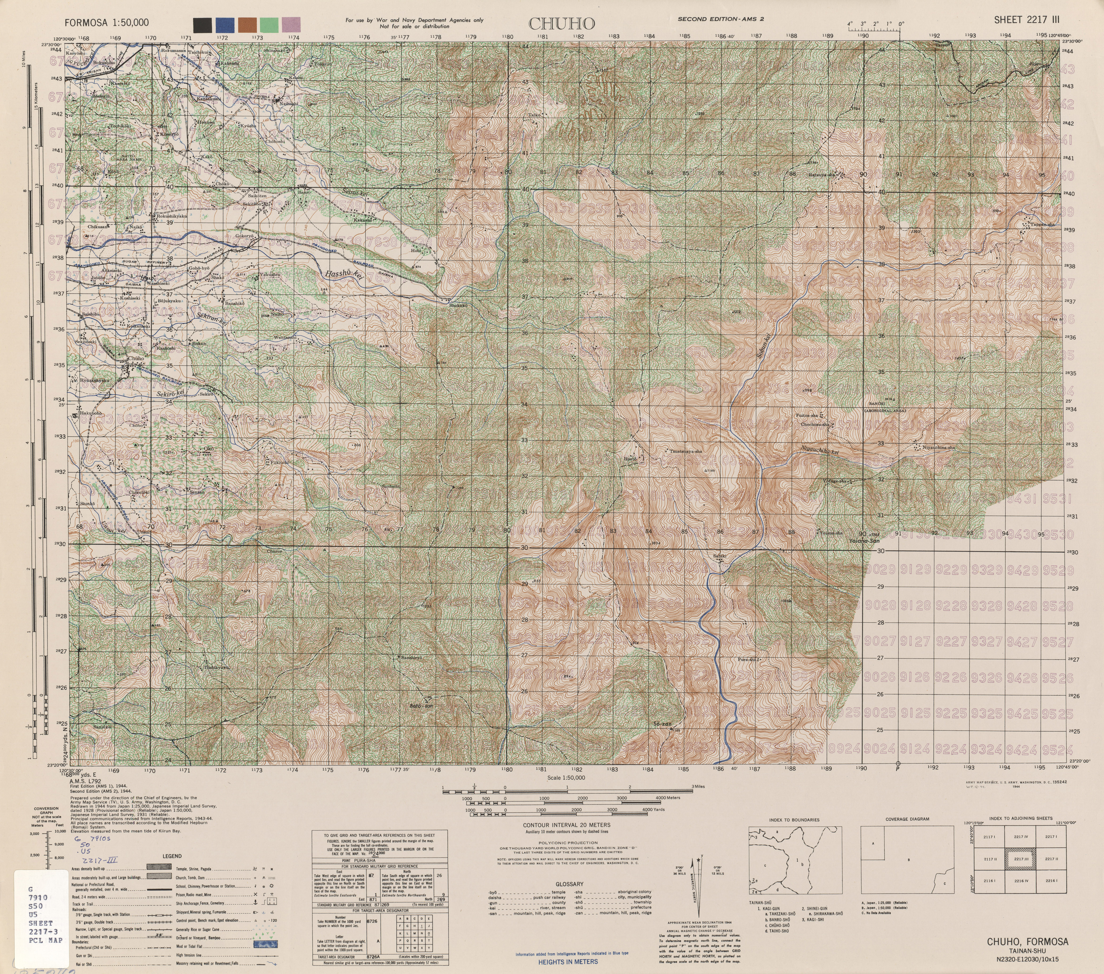 Map from Formosa (Taiwan) 1:50,000 AMS Series L792